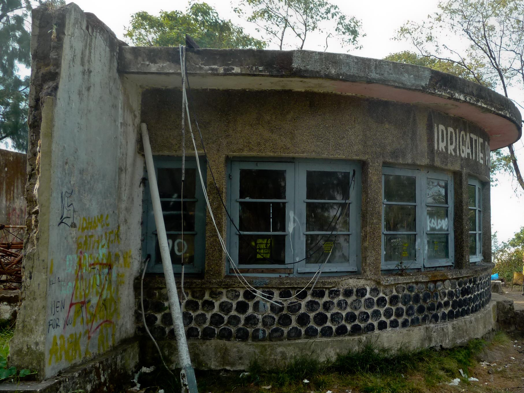 The Pondok (hut) Kawah Ijen close to the Ijen Lake in East Java. Build as an observation post around 1930 after the heavy lahars had flooded the area. In 1961, it was permanently manned with 3 persons watching the level of the crater lake, and served as a mountain hut for tourists ( The building is an example of the Art Déco style also seen in Bandung and Miami, but currently in state decay.